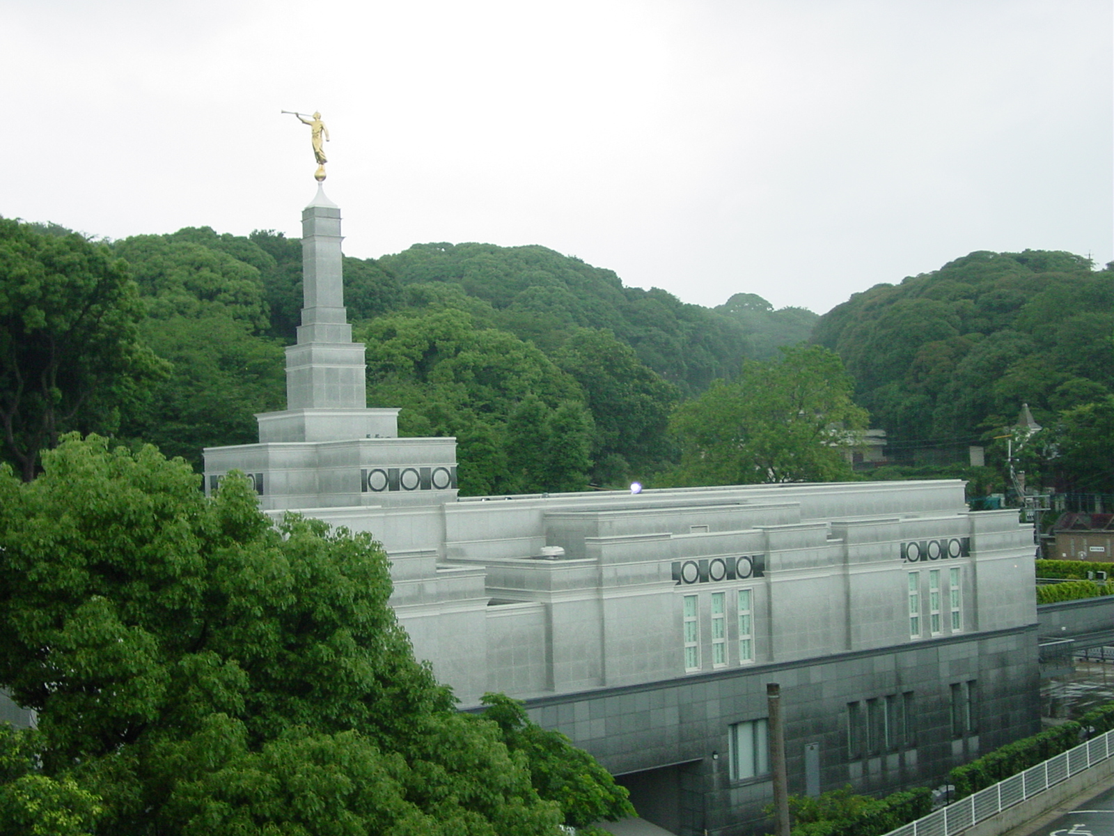 The Fukuoka Japan Temple of The Church of Jesus Christ of Latter-day Saints. Taken from our apartment in Hirao, Chūō-ku, Fukuoka. The lighter (top) half is the temple, the darker (bottom) half is Temple President's residence, mission home, mission office and parking lot. It's pretty cool. On the right you may see the entrance to the Fukuoka Municipal Zoo.